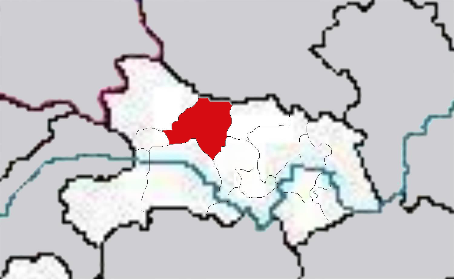 Maps of Hubei Province of China